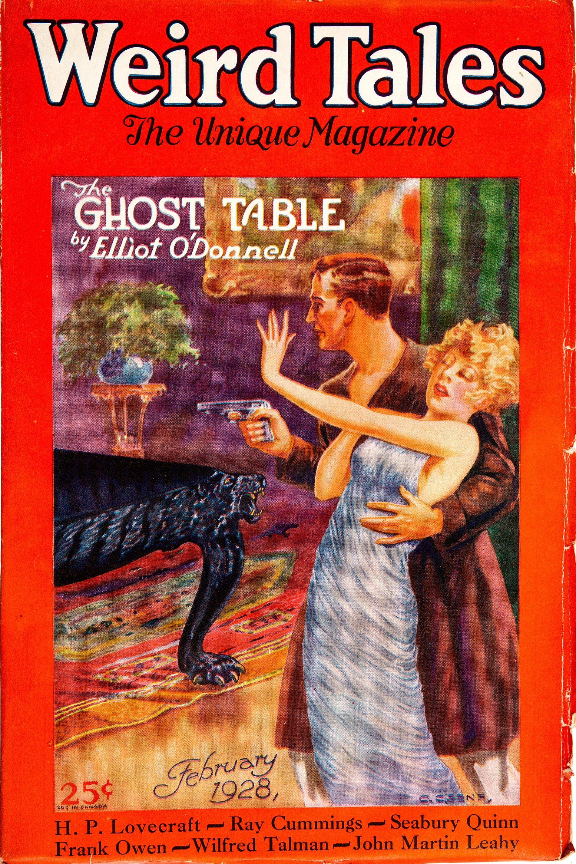 Cover of the pulp magazine Weird Tales (Feb 1928, vol. 11, no. 2) featuring The Ghost-Table by Elliot O'Donnell. Cover Art by C. C. Senf.